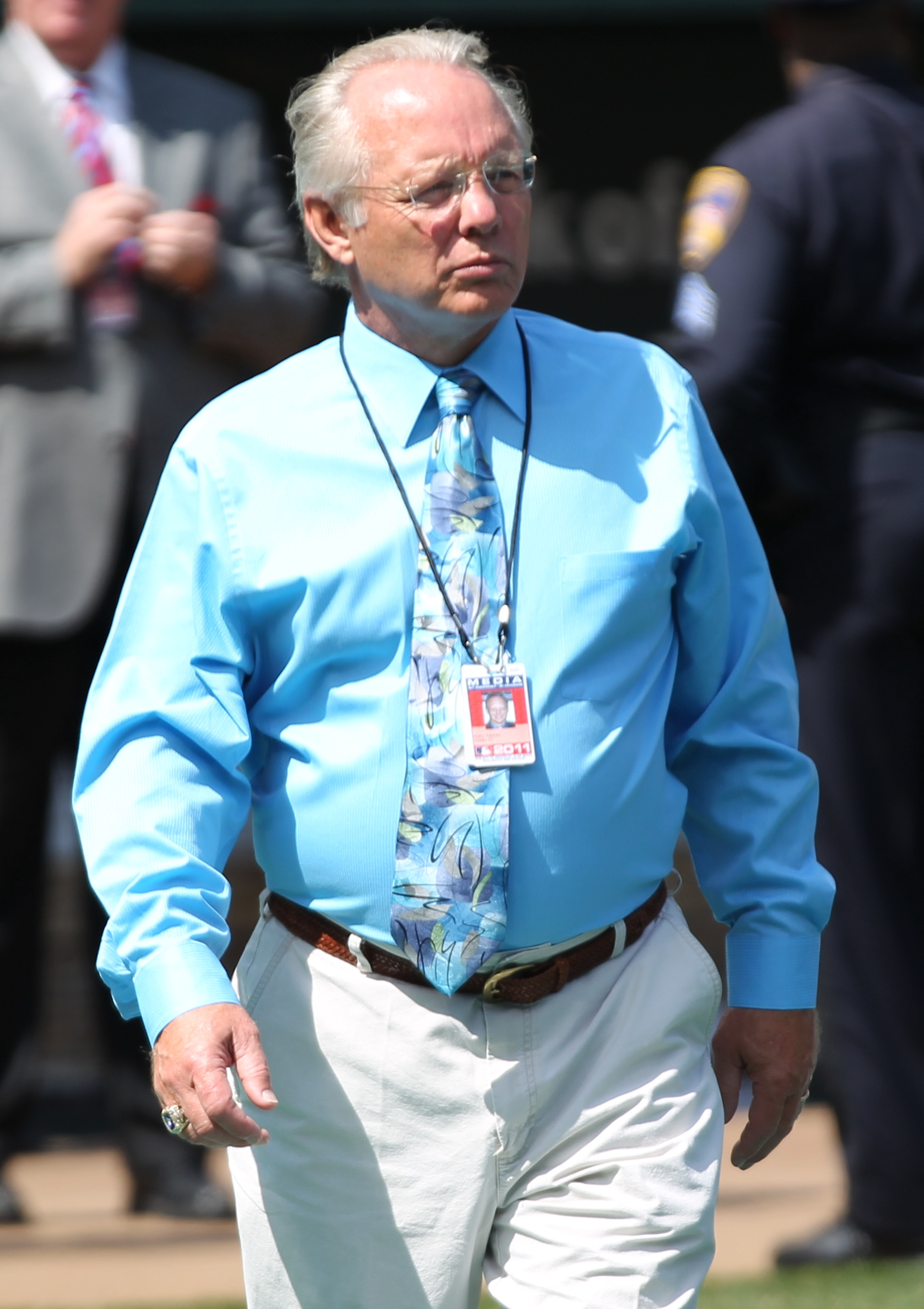 Gary Thorne